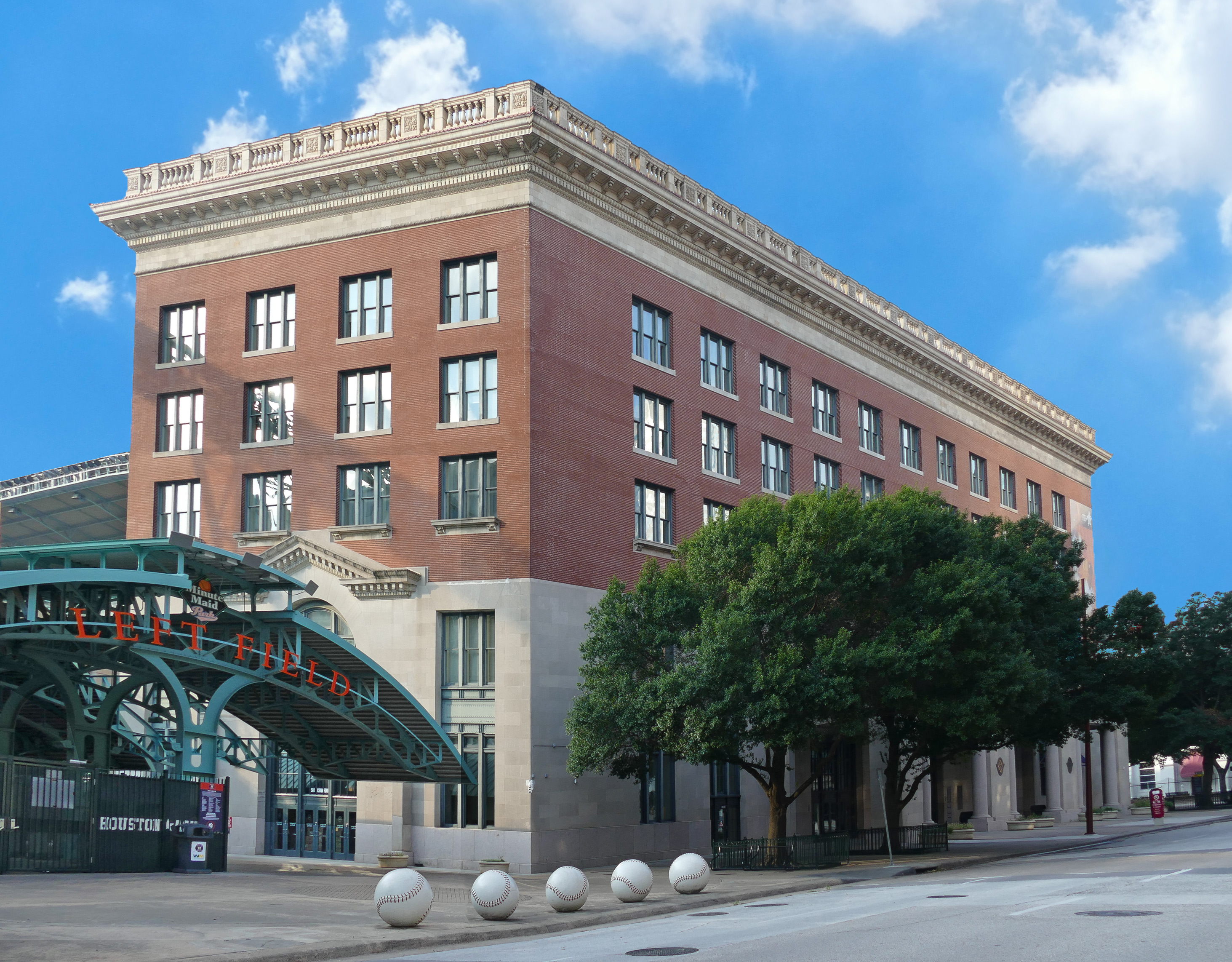 Union Station -- Houston, Texas